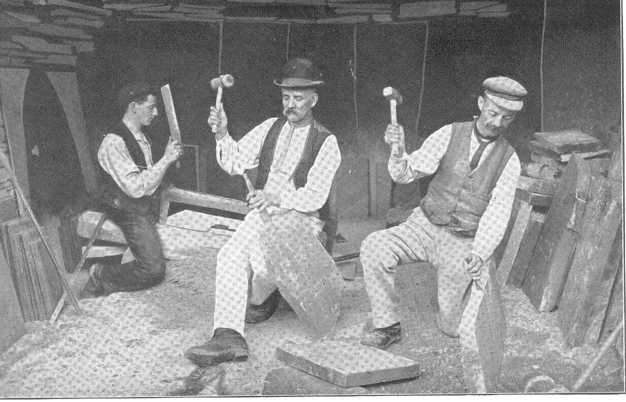 Quarrymen splitting slate at Dinorwig Quarry, Wales c. 1910 Dinorwic Quarry